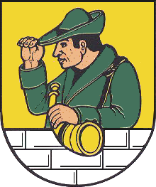 Coat of arms of Wachstedt